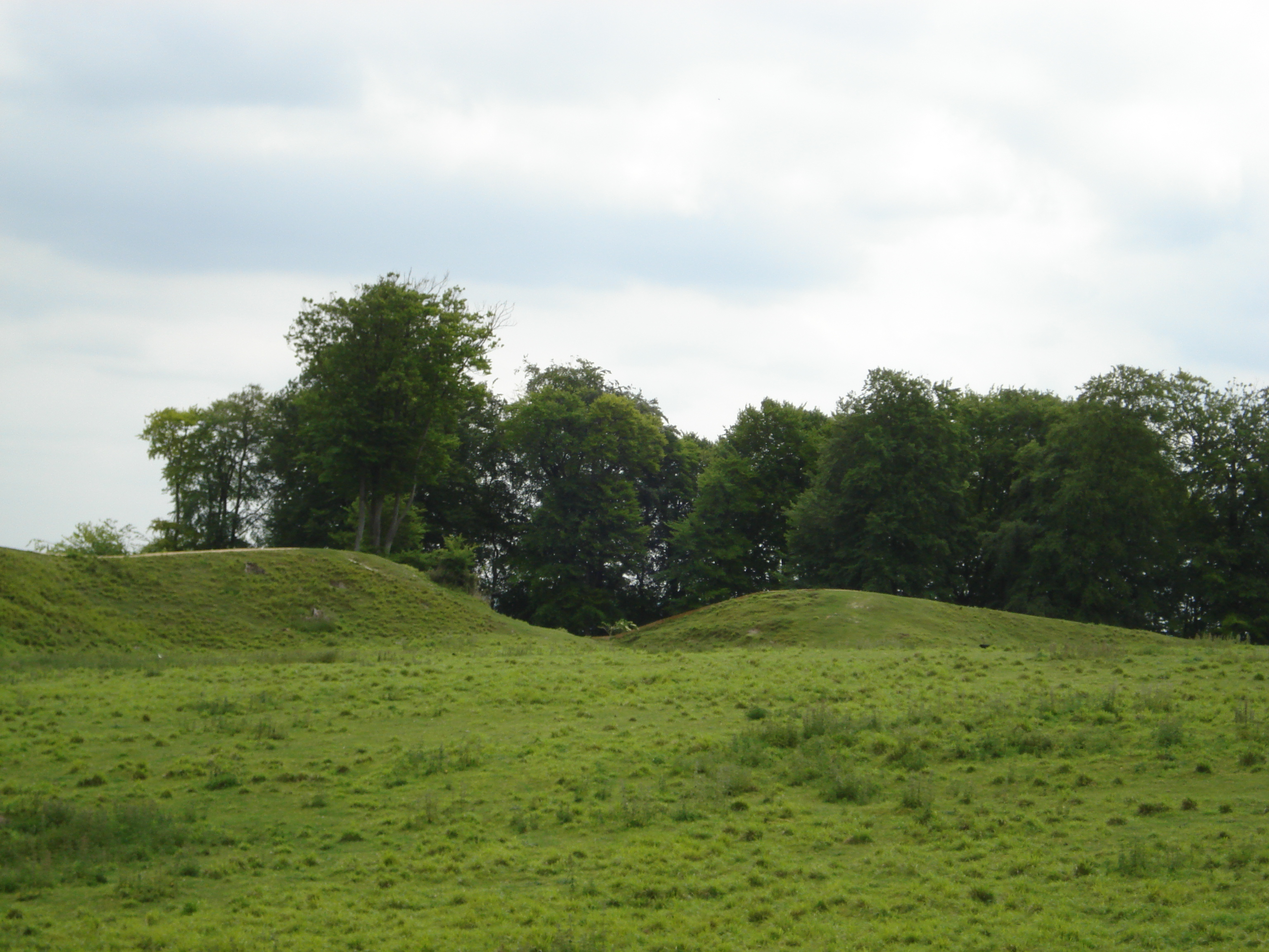 Danebury Hill Fort entrance